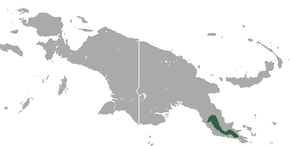 Broad-striped Dasyure (Paramurexia rothschildi) range